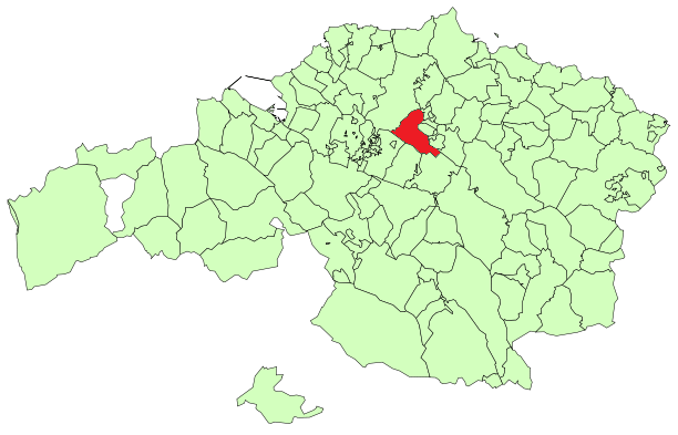 Gamiz-Fika